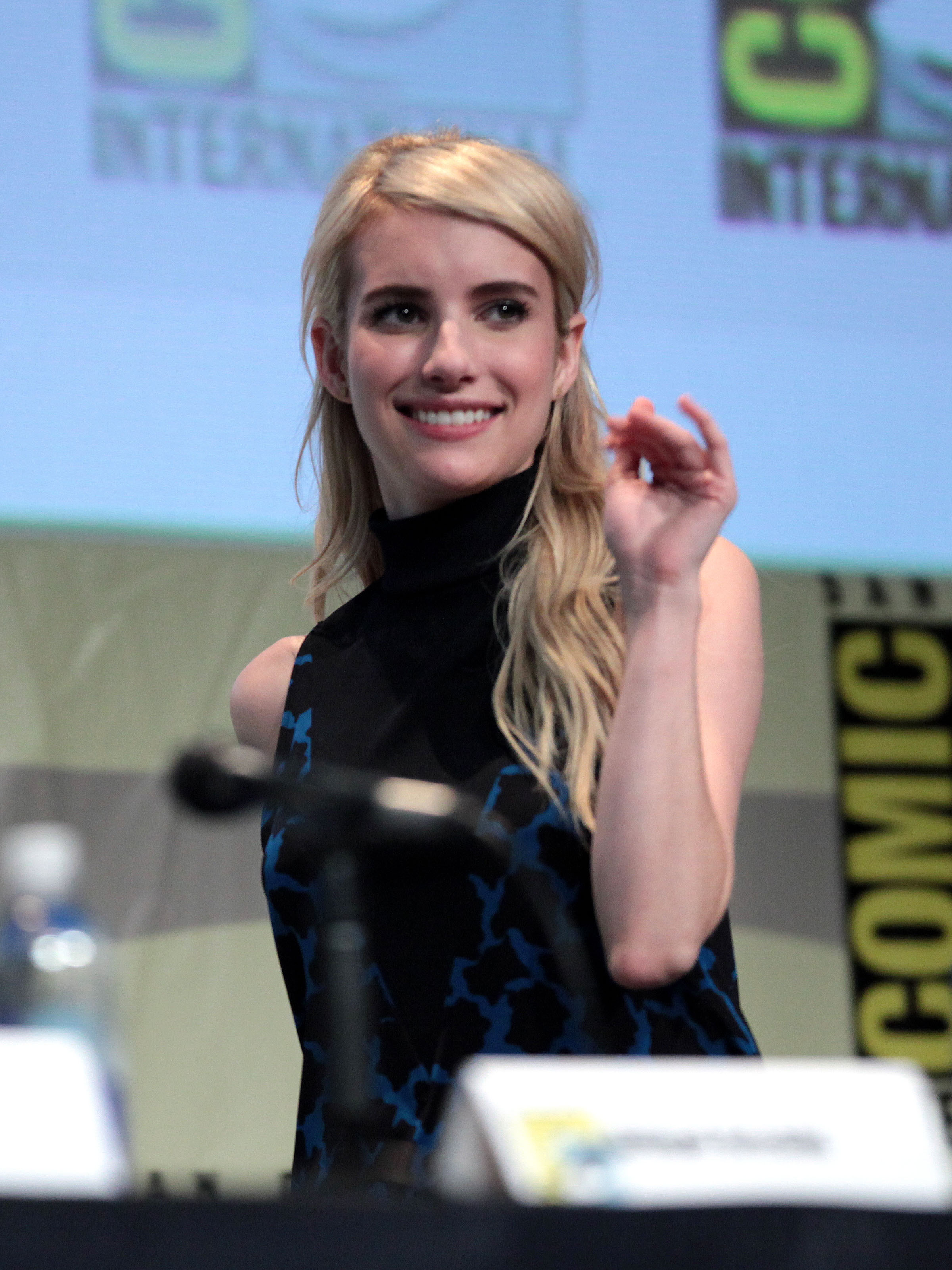 Emma Roberts speaking at the 2015 San Diego Comic-Con International, for "Scream Queens", at the San Diego Convention Center in San Diego, California.